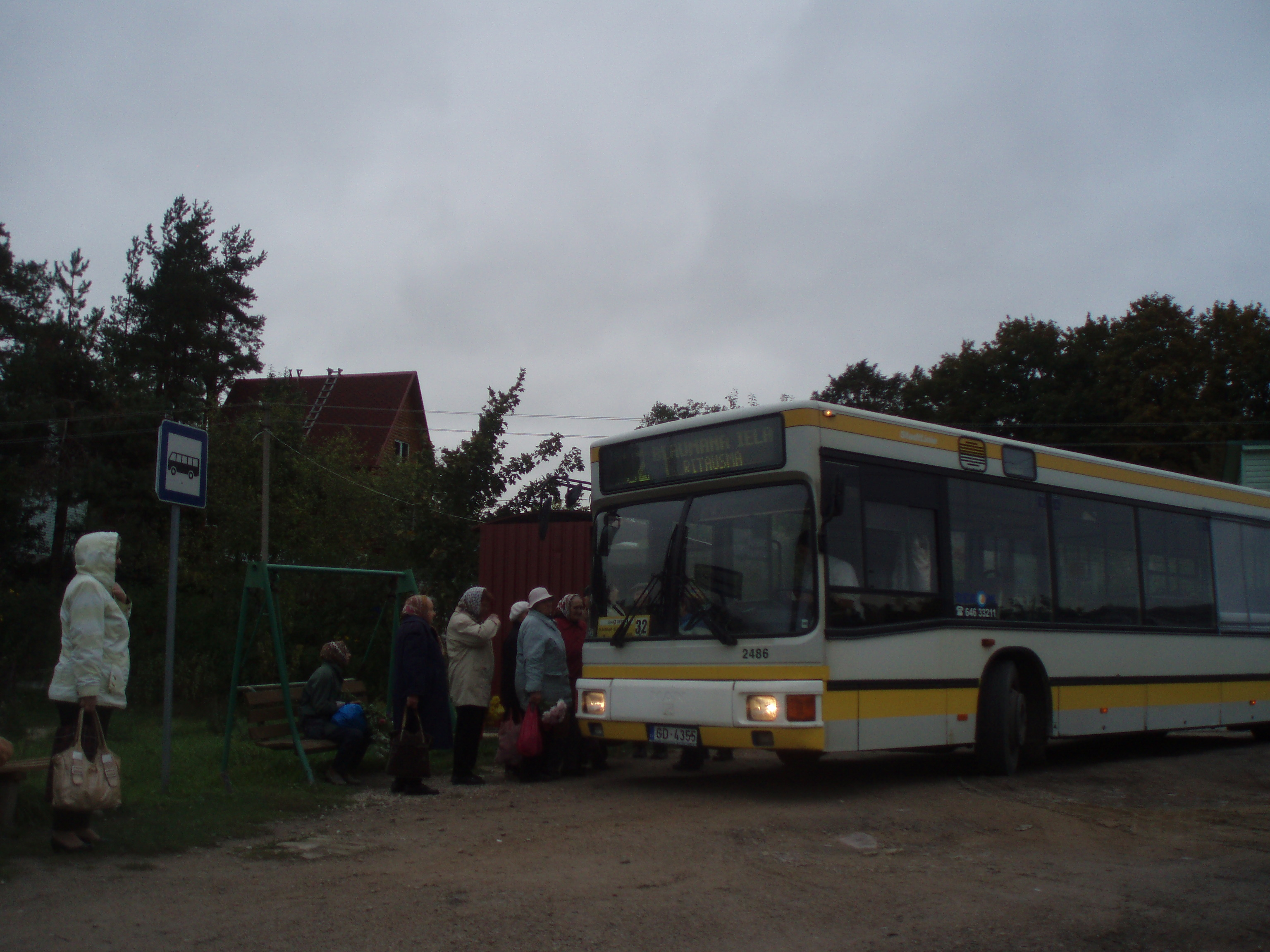 Bus 32 in village Pleikšņi, near Rēzekne, Latvia.